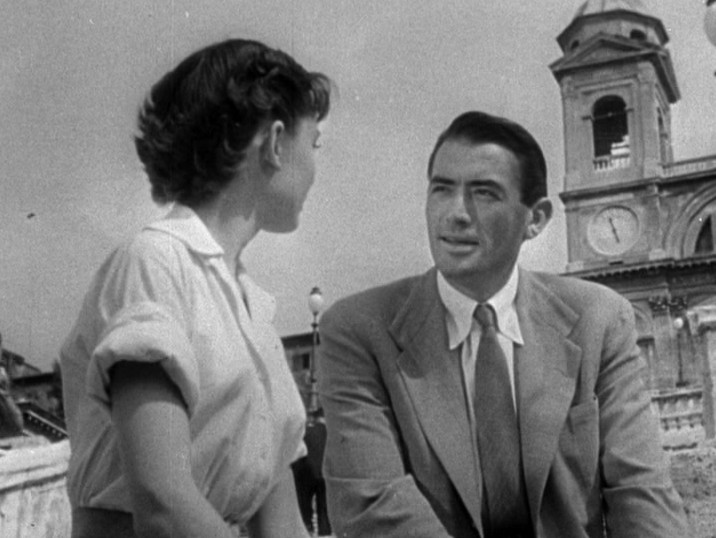 Cropped screenshot of Audrey Hepburn and Gregory Peck from the trailer for the film Roman Holiday.